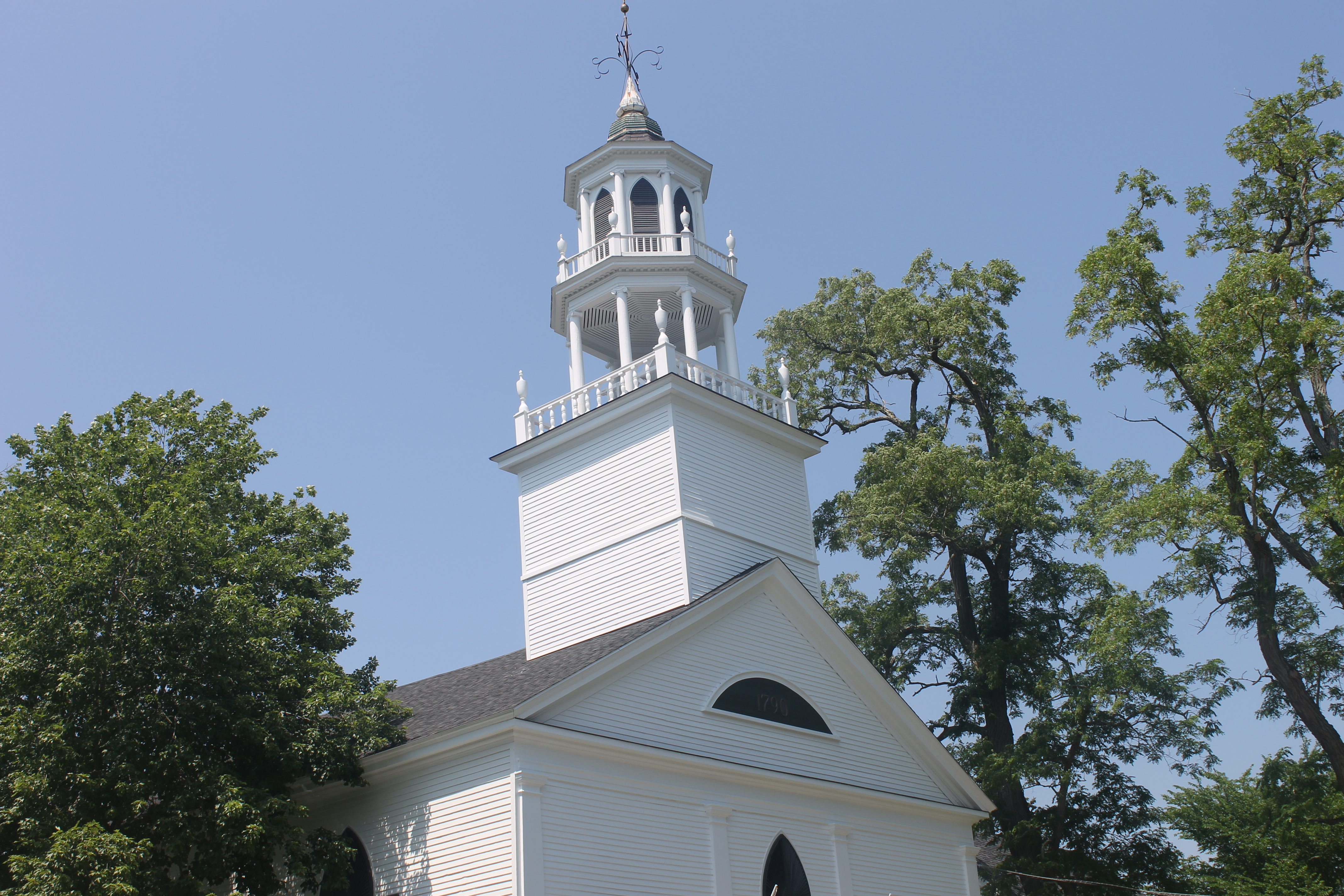 I took photo with Canon camera of Unitarian Universality Church in Castine, ME.